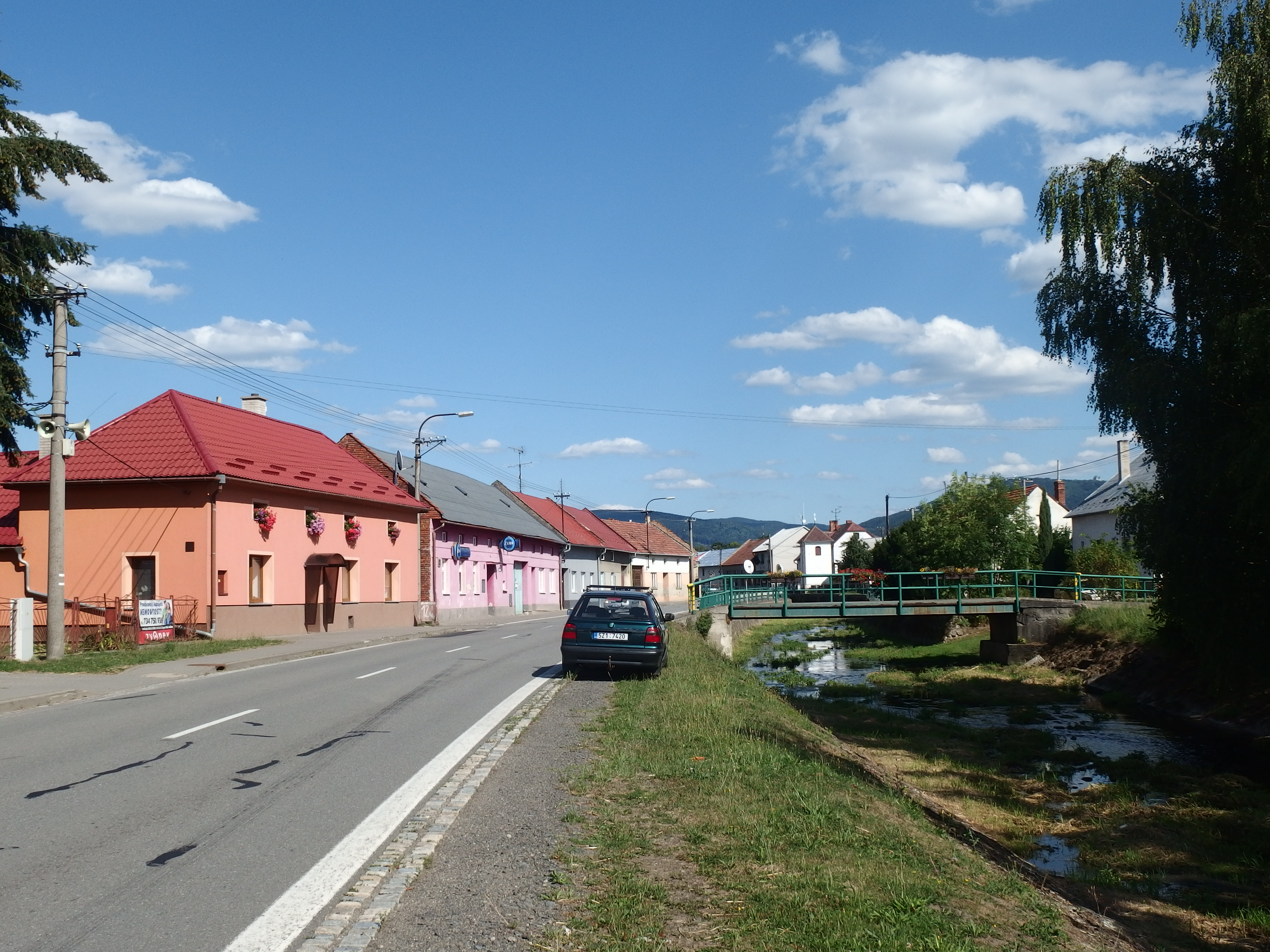 Křtomil, Přerov District, Czech Republic.